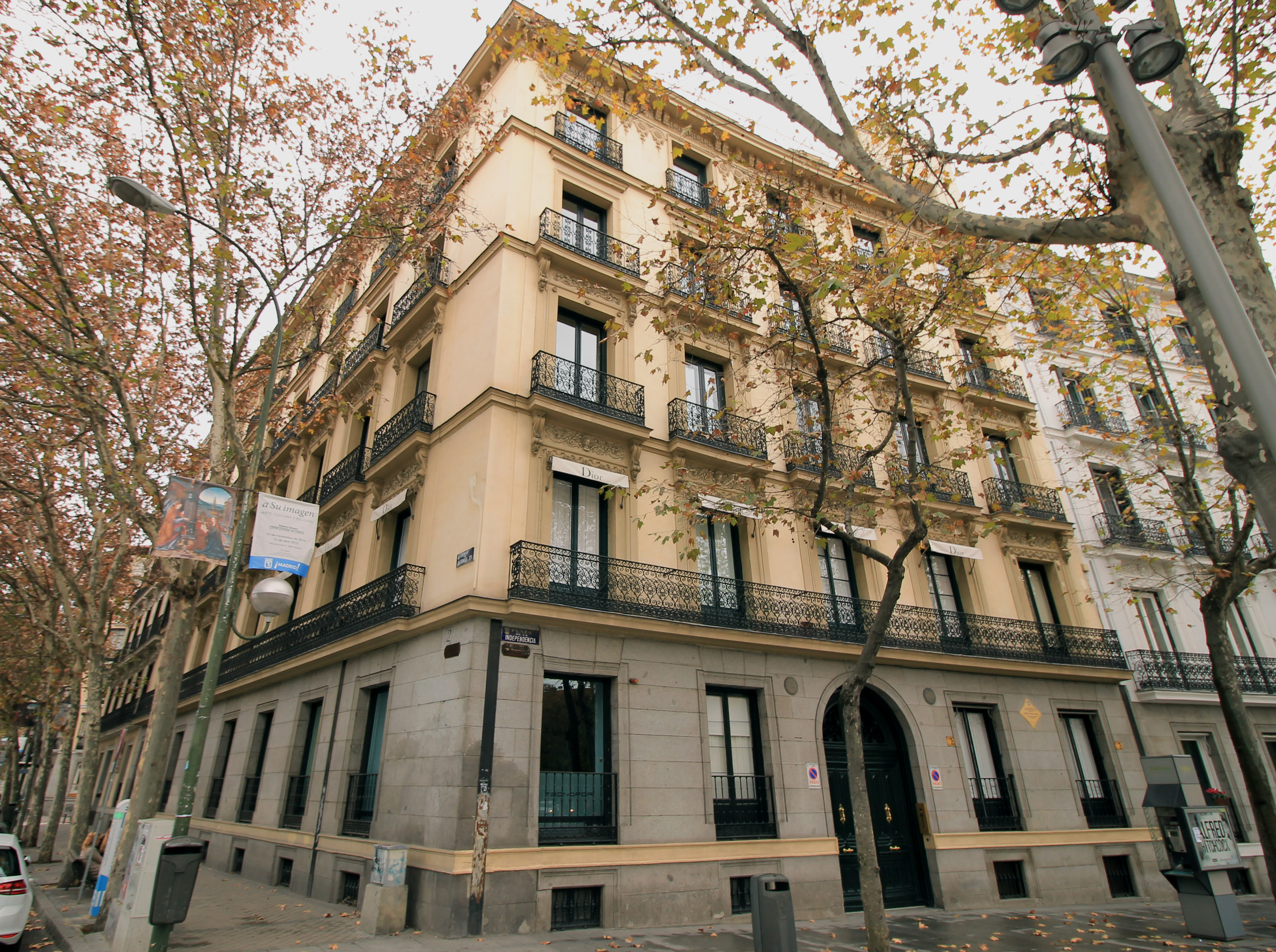 Façade of Casas Salabert in Madrid (Spain). Writer José Bergamín was born in this house (8 Plaza de la Indpendencia) on December 30th, 1895.